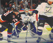 Picture of Alexei Yashin during a hockey game.